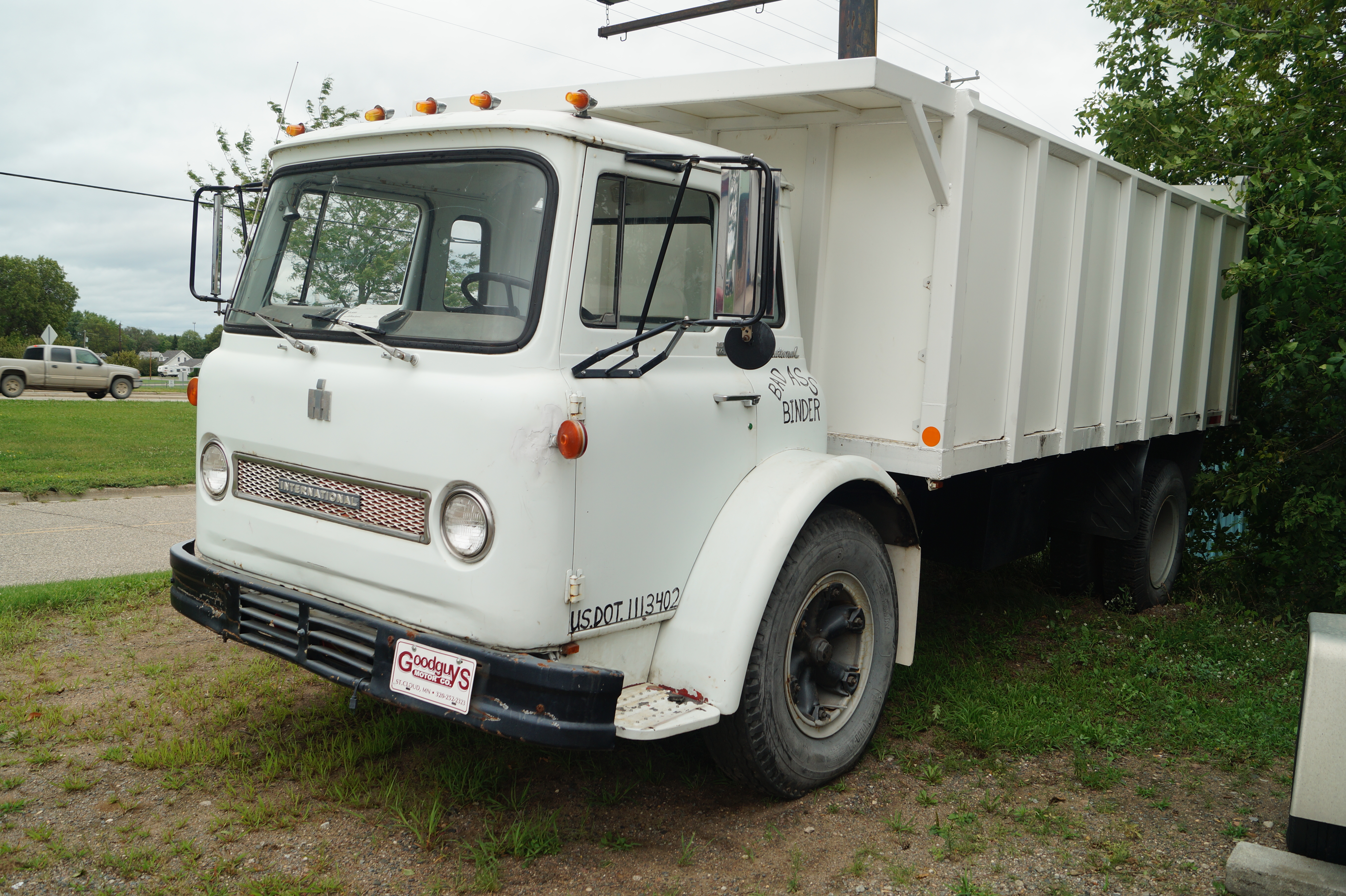 International Harvester Loadstar CO.